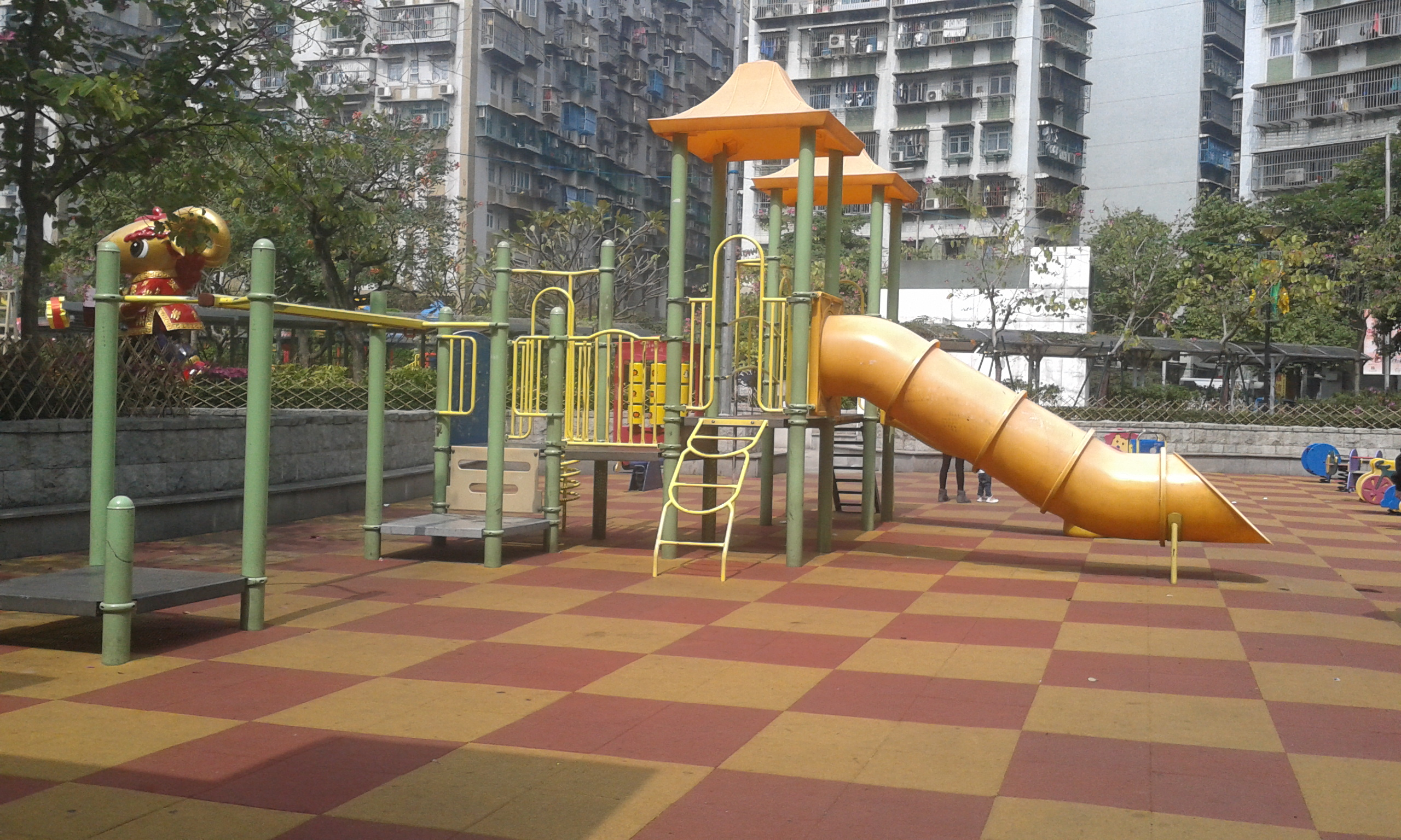 A Playground in Iao Hon Park